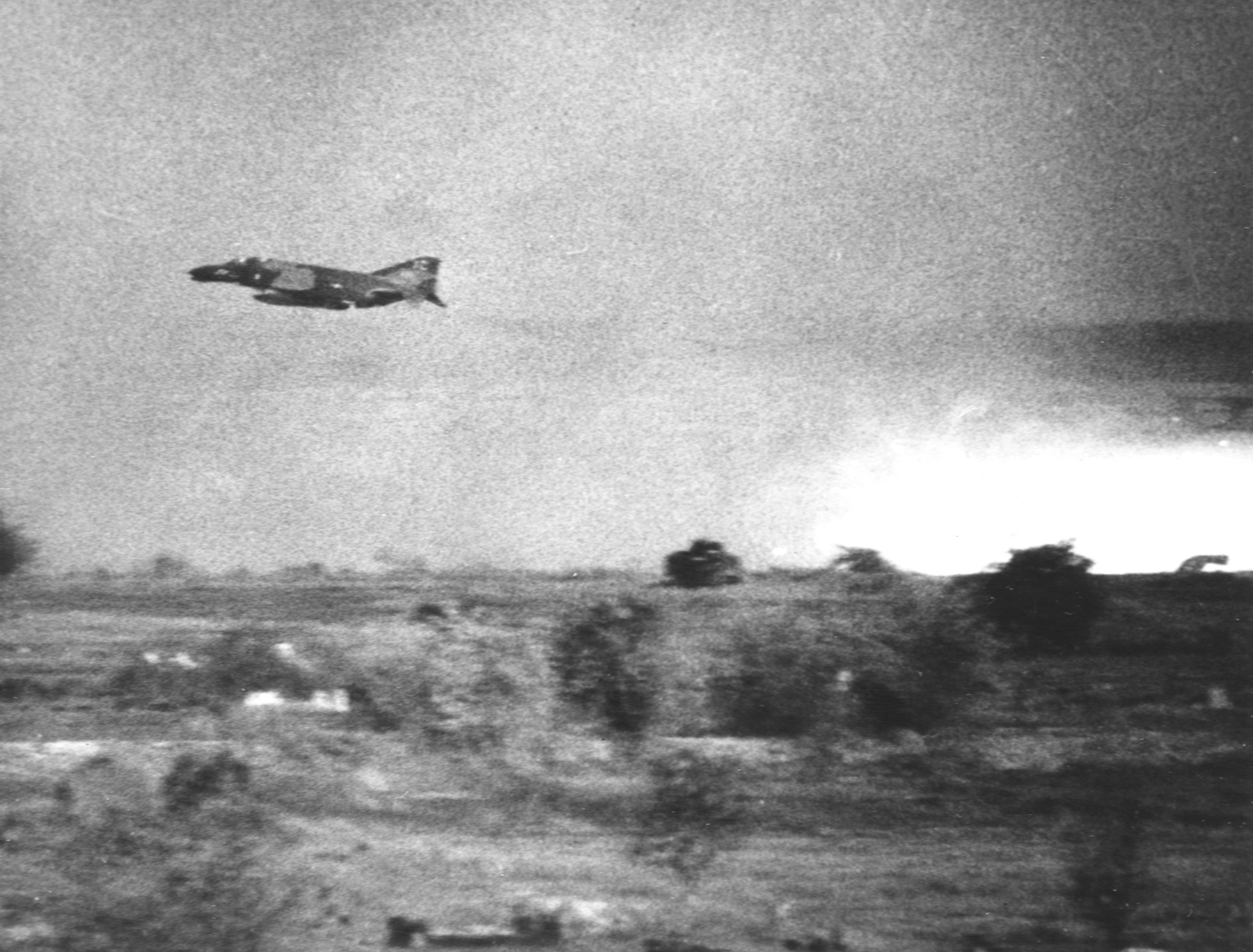 A U.S. Air Force McDonnell F-4C Phantom II from the 557th Tactical Fighter Squadron, 12th Tactical Fighter Wing, delivers close air support to armored vehicles in South Vietnam during April 1969.